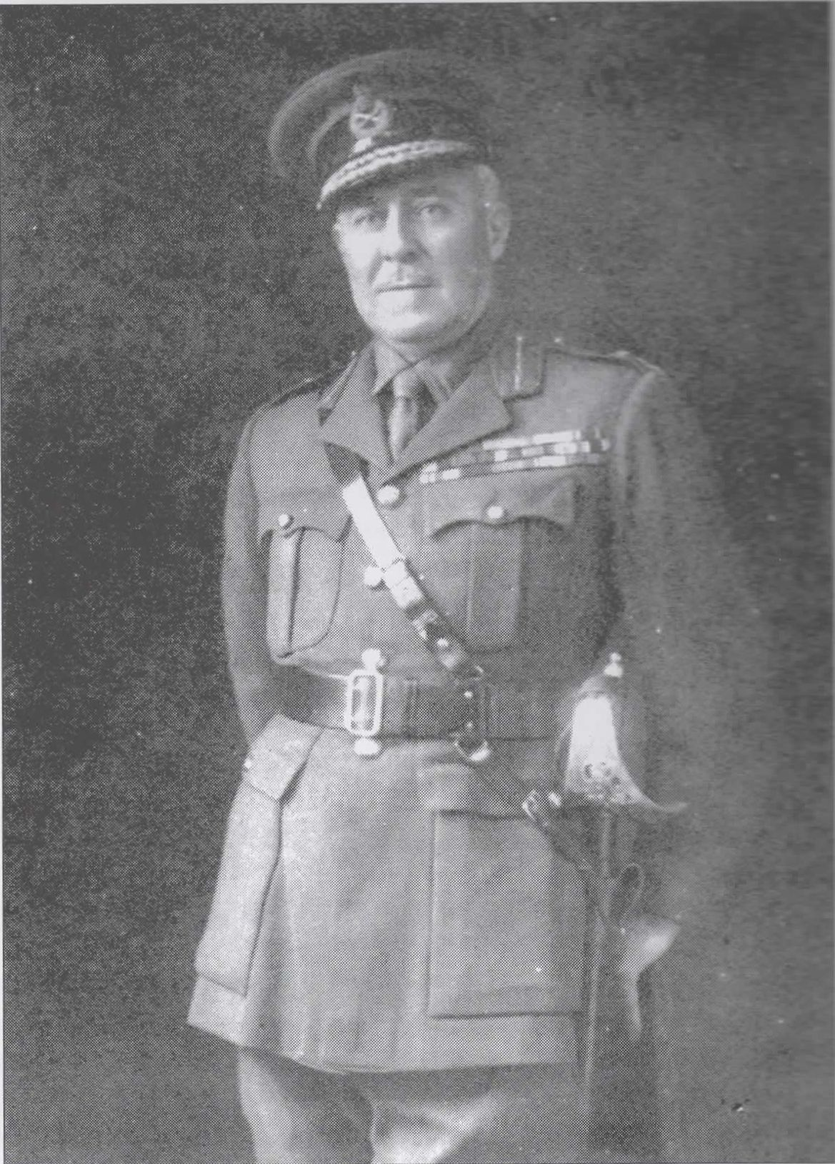 Major General Arthur Hoskins photographed sometime between 1921 and 1932